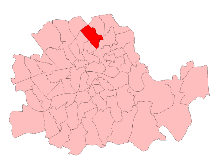 A map of Islington East constituency within the London County Council area, as it existed from 1918 to 1949.